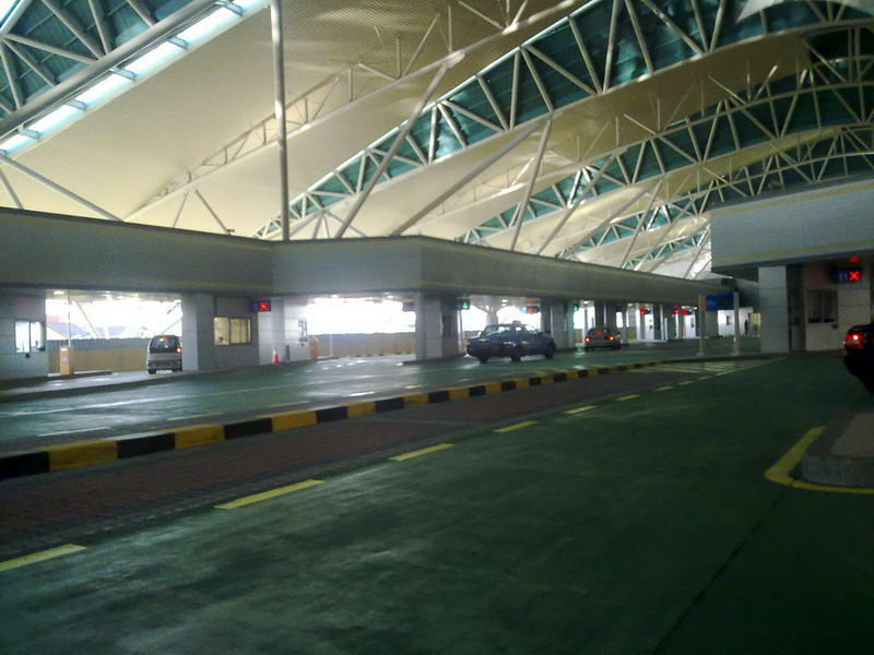 The picture show the Sultan Iskandar Custom Complex , Johor Bahru